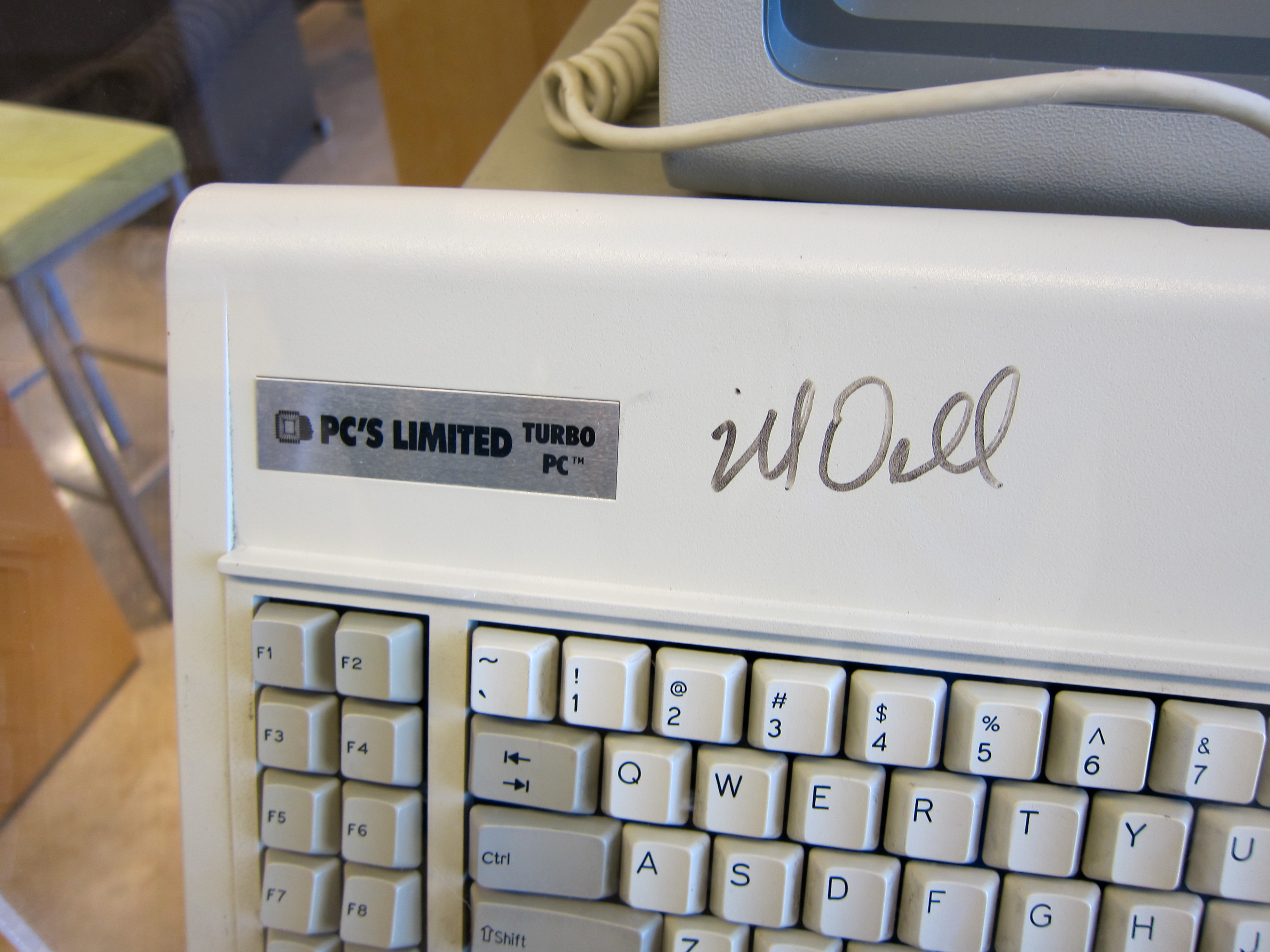 PC's Limited Turbo PC (signed by Michael Dell)